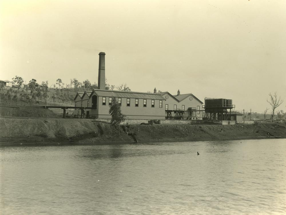 Processing plant of Mount Morgan Mines next to the Dee River Mount Morgan is adjacent to the Dee River, which flows between the mine and the town into the Don and Dawson Rivers and then into the Fitzroy River.